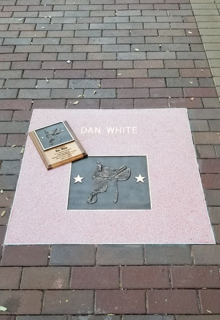 Dan White on the Newhall Walk of Westen Stars